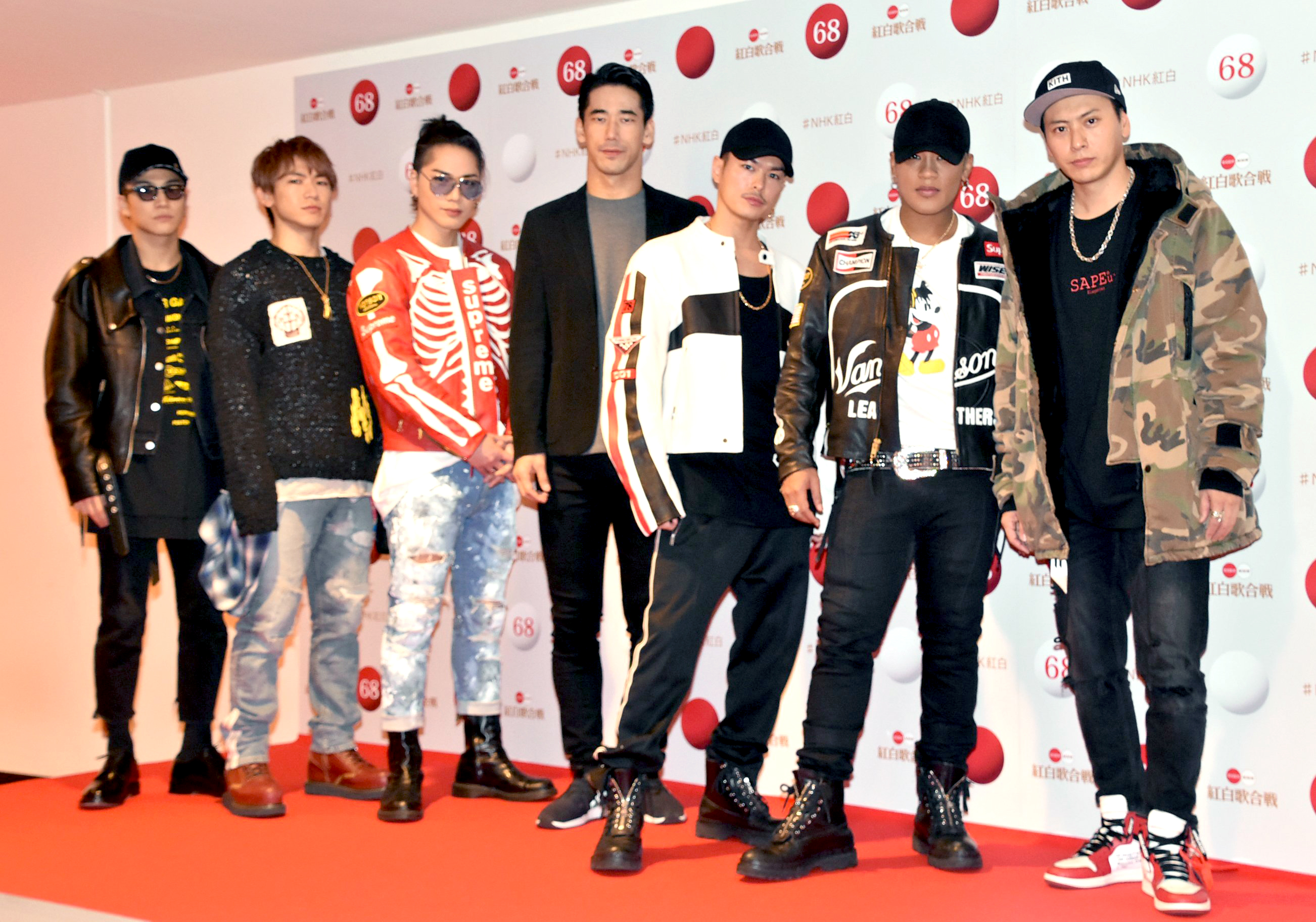 Image of the members of the Japanese music group known as Sandaime J Soul Brothers, used to serve as the primary means of visual identification at the top of the article dedicated to the work in question